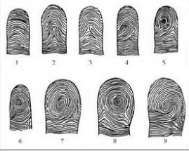 9 fingerprints by Purkinje